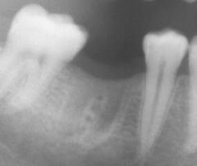 X_Ray of an empty space in the jaw where a tooth has been lost